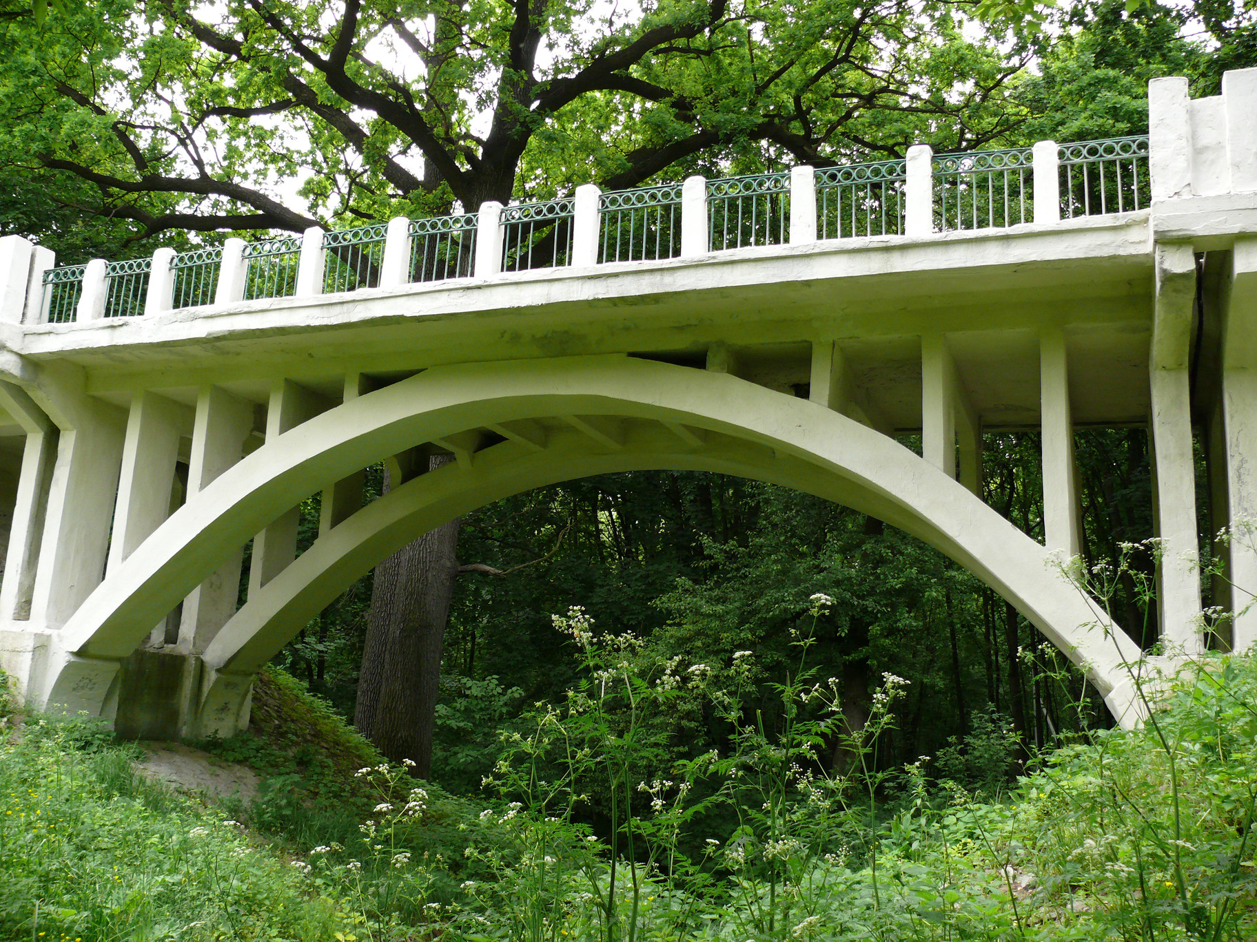 Kharkov children's railway